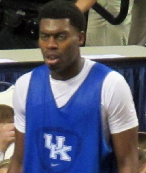 Dakari Johnson in Kentucky's 2013 Blue-White scrimmage game at Rupp Arena in Lexington, Kentucky